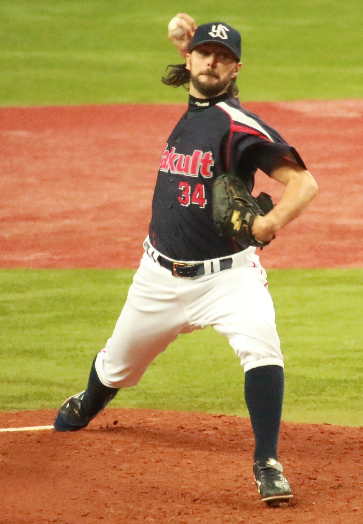 Tony Barnette, pitcher of the Tokyo Yakult Swallows, at Osaka Dome